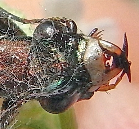 Cylindera germanica from Hungary, head of dead insect with spieder-webs Ricoh R8